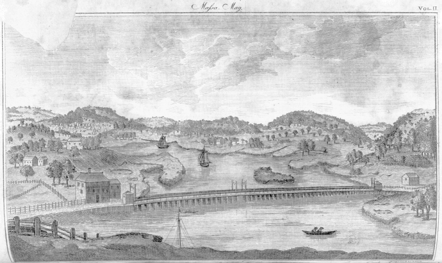 View of the bridge over Mystic River & the contry adjacent from Bunker's Hill / engraved by S. Hill. Print shows bird's-eye view from Bunker Hill of the "Malden Bridge" across the Mystic River, with Medford, Massachusetts in the background. Illus. in: The Massachusetts magazine, or, Monthly museum of knowledge and rational entertainment. Boston, Mass. : Isaiah Thomas and Ebenezer T. Andrews, vol. II, no. IX, 1790 (September), opp. p. 515. Repository: Library of Congress Washington, D.C.